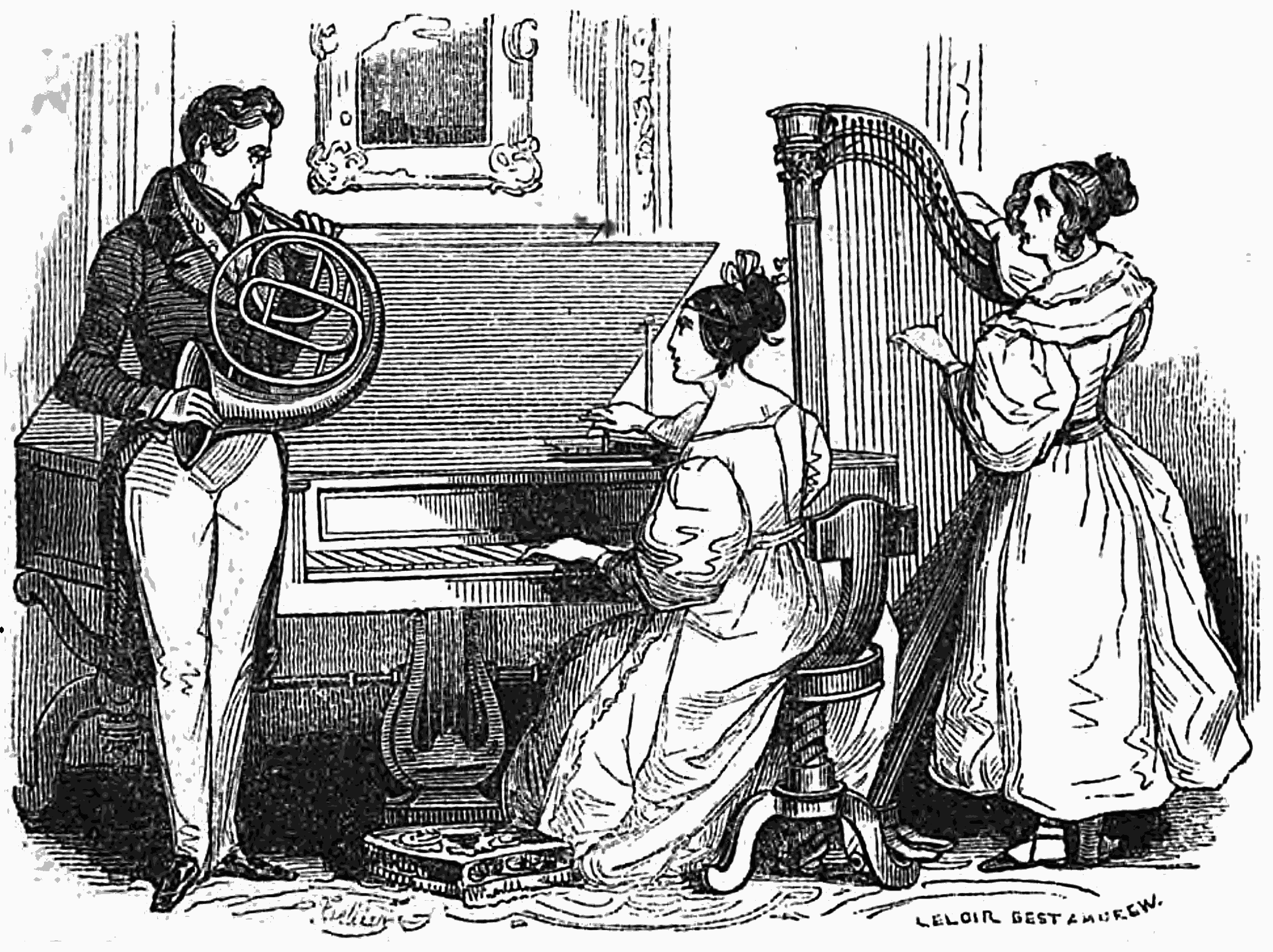 Illustration from title page of 1836 edition of Claude Montal's L'art d'accorder soi même son piano showing two women tuning musical instruments-one a square piano and the other a pedal harp-as a man plays on a horn.